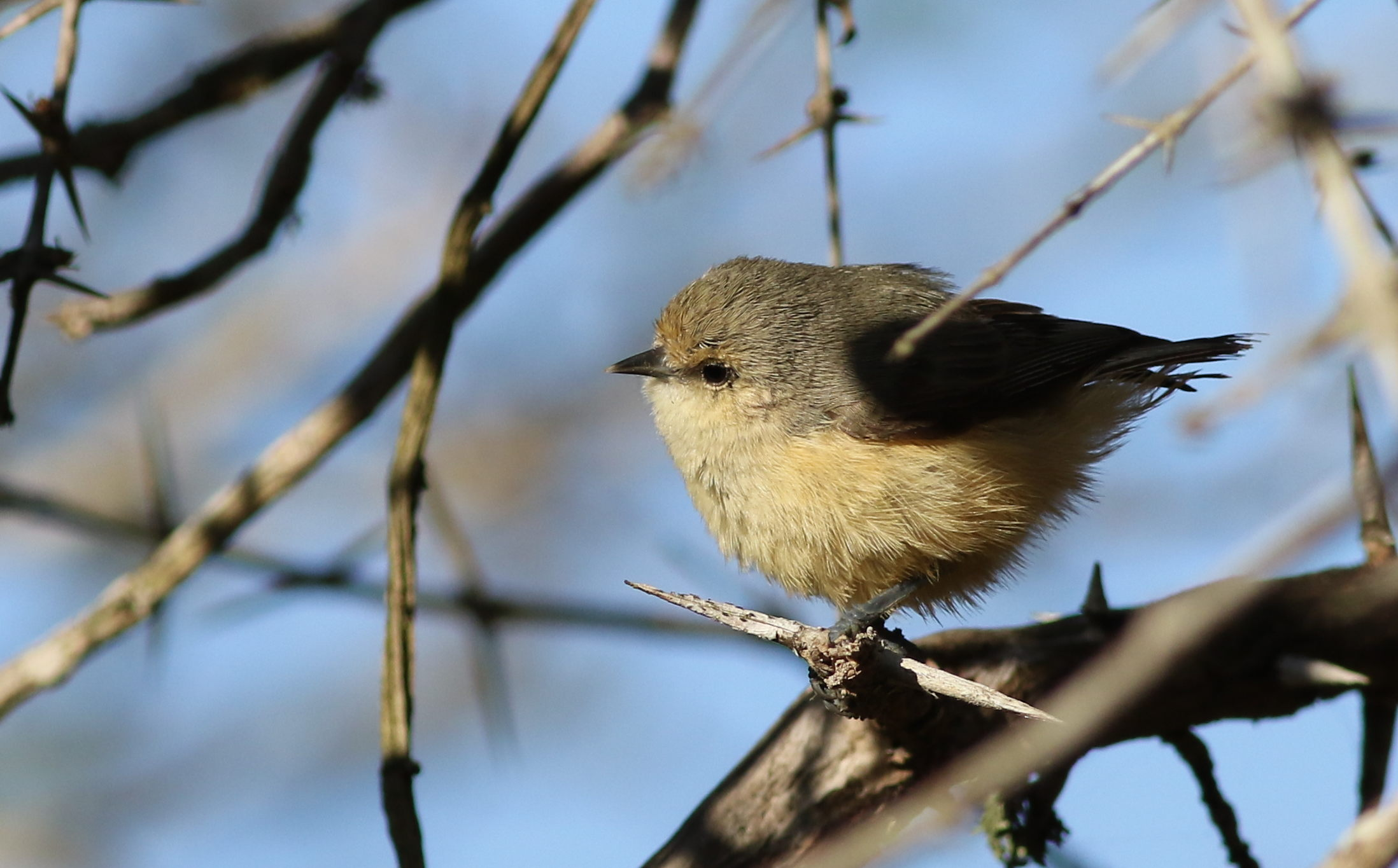 Grey penduline tit, Anthoscopus caroli, also known as the African penduline-tit at Ndumo Nature Reserve, KwaZulu-Natal, South Africa